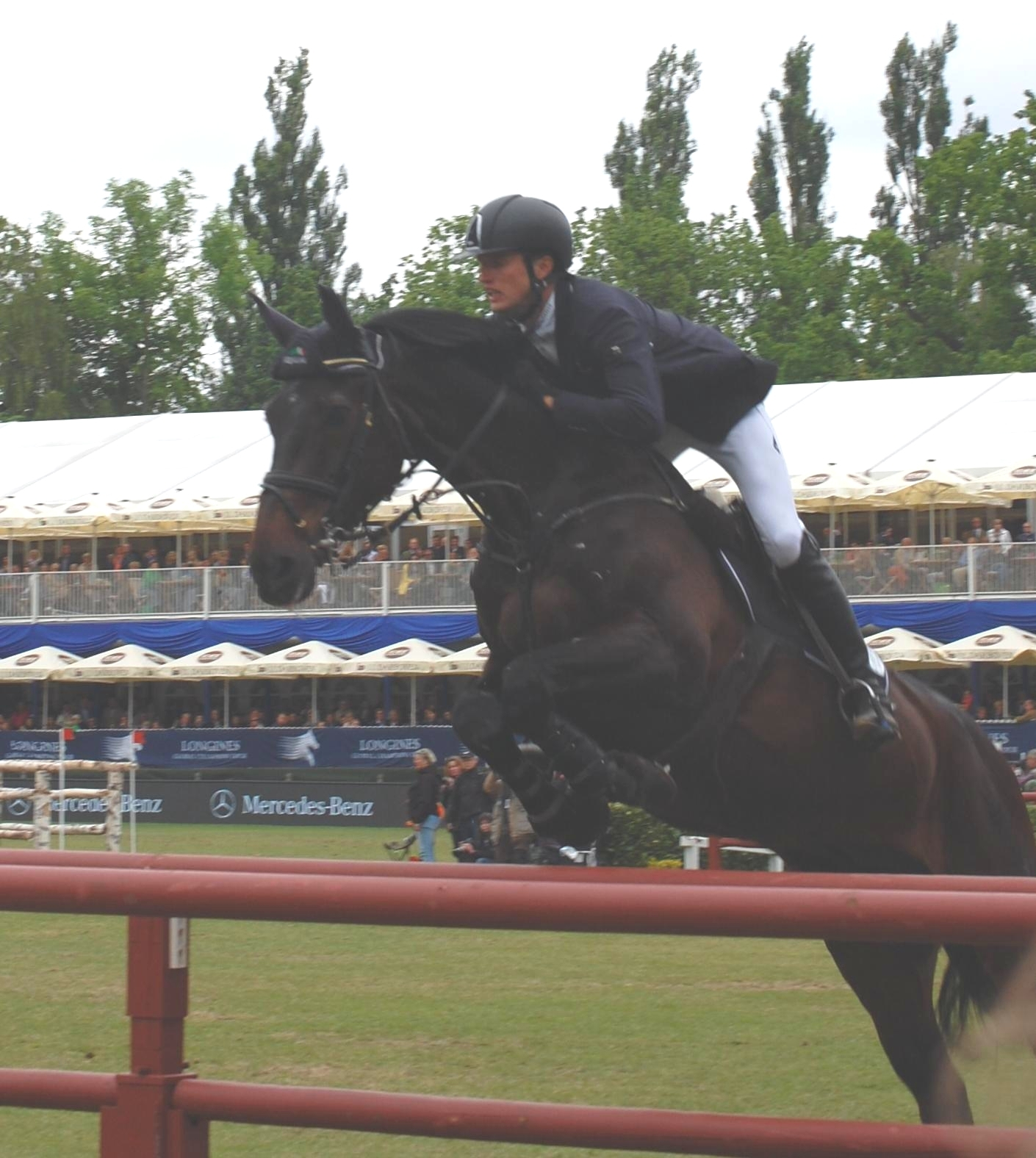 German rider Nisse Lüneburg with Calle Cool, winner of the 85th German show jumping derby, Hamburg 2014.